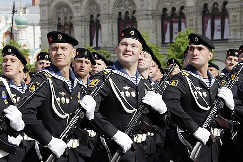 RED SQUARE, MOSCOW. Military parade marking the sixty-third anniversary of Victory in the Great Patriotic War.